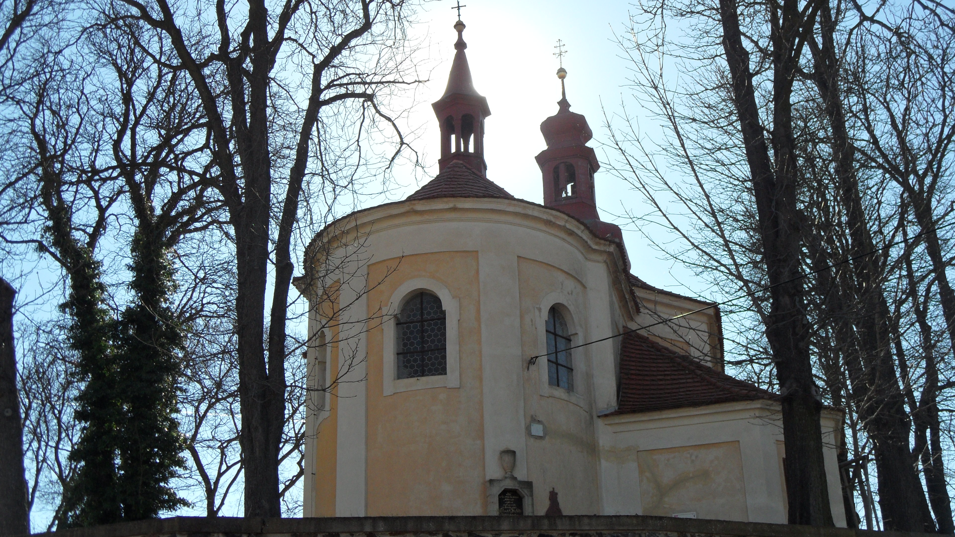 St Bartholomew church in Hostouň (Kladno District), Czech Republic.